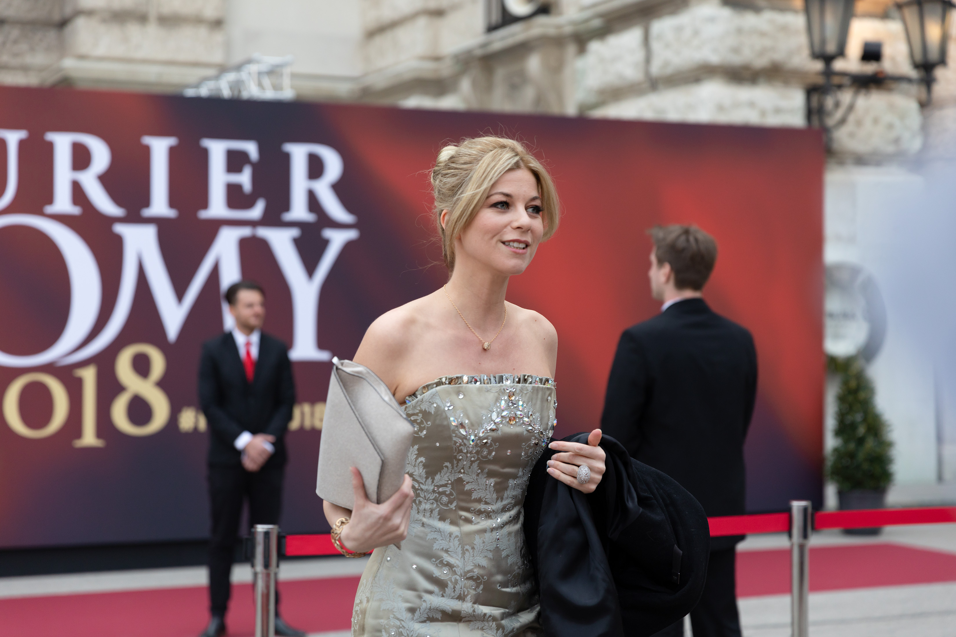 Hilde Dalik on the red carpet of the Romy TV awards 2018 at Hofburg Palace in Vienna, Austria.